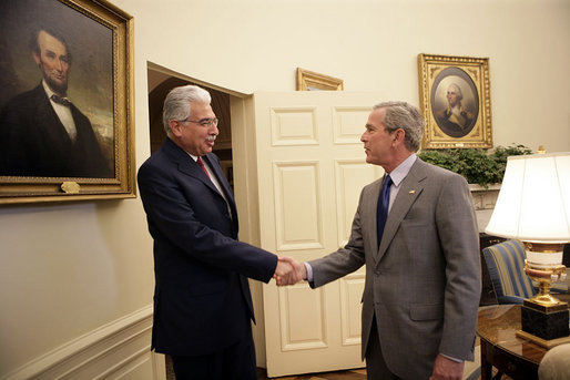 President George W. Bush welcomes Egypt's Prime Minister Ahmed Nazif to the Oval Office Wednesday, May 18, 2005. White House .